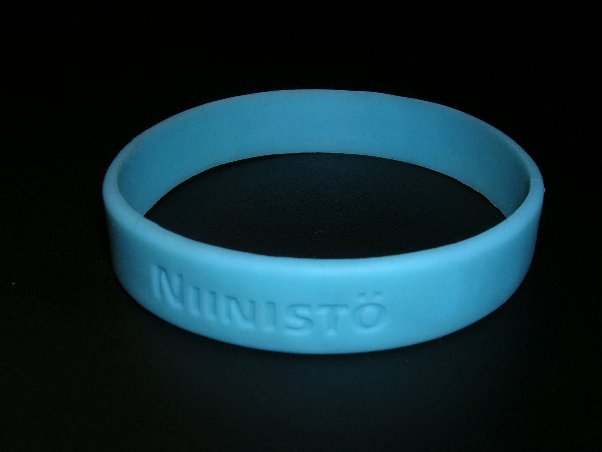 Supporter bracelet of Sauli Niinistö, finnish politician